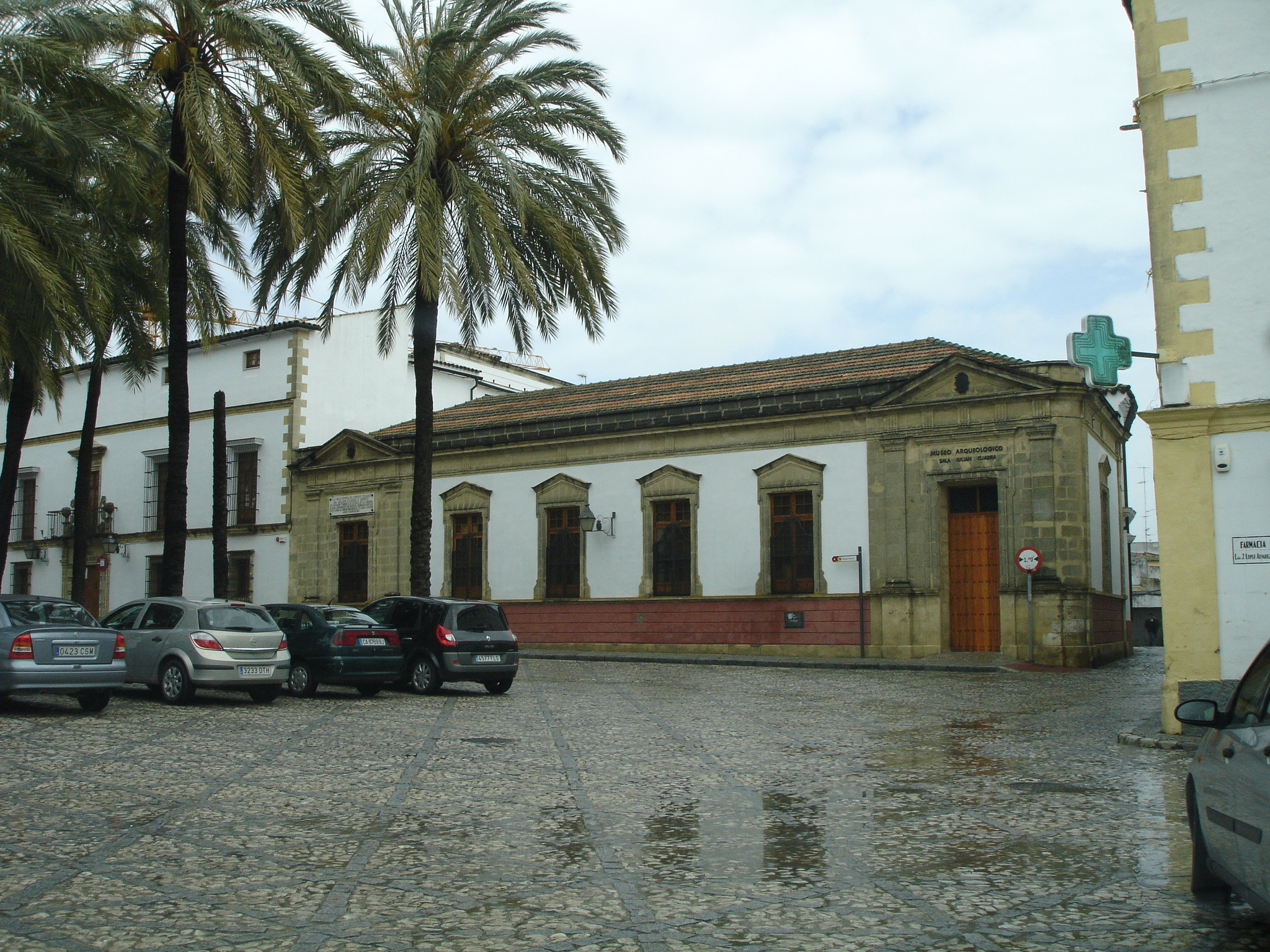 Museo Arqueológico Municipal de Jerez de la Frontera (Andalusia, Spain).